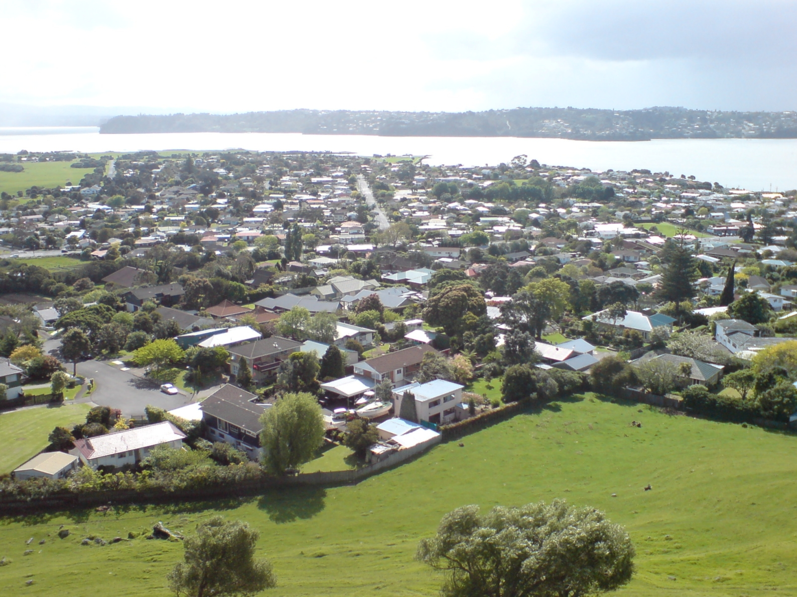 Western Mangere Bridge suburb, seen from Mangere Domain, Manukau City, New Zealand.